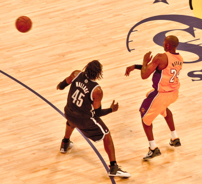 Kobe Bryant passes while defended by Gerald Wallace.